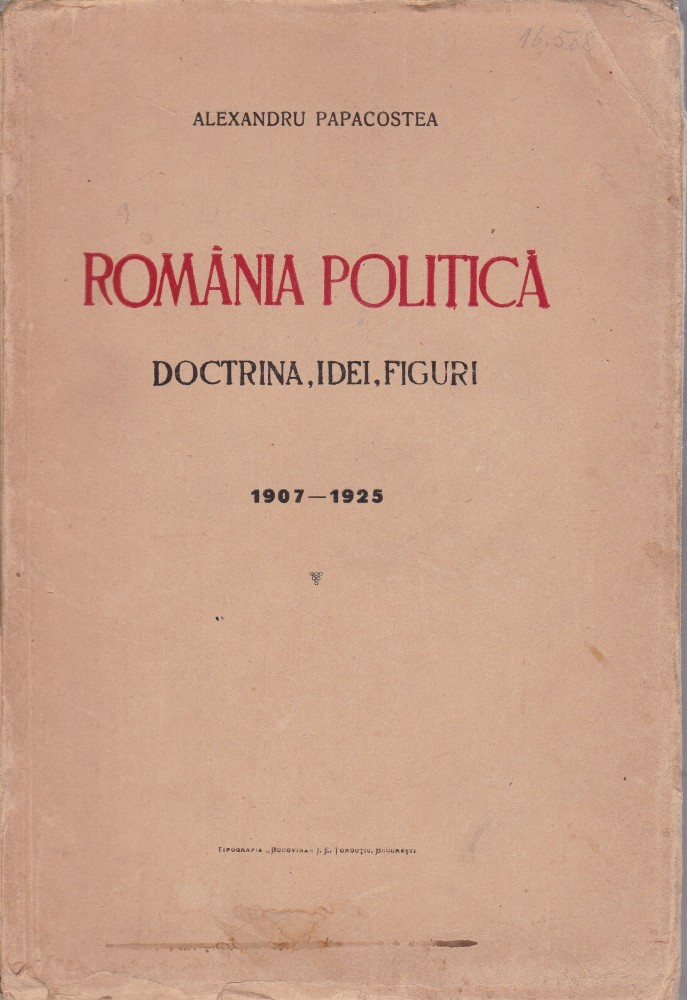 România politică: doctrină, idei, figuri 1907-1925